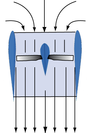 Sechematic of flow through a ducted fan